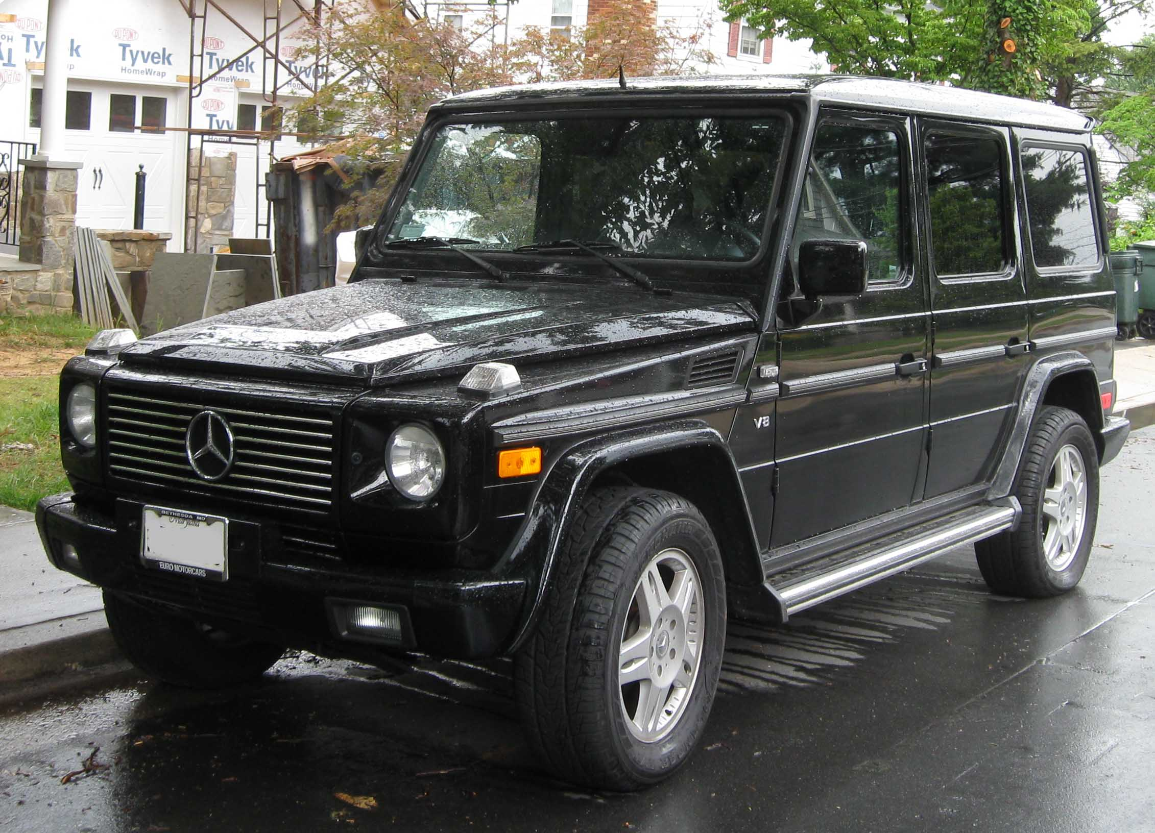 Mercedes-Benz G500 photographed in Gaithersburg, Maryland, USA.